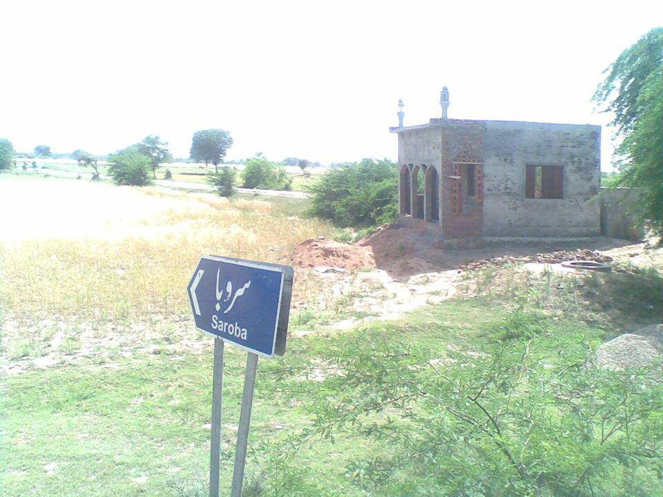 This village is Saroba, Pind Dadan Khan Tehsil, Punjab, Pakistan. By Muhammad Ehsan